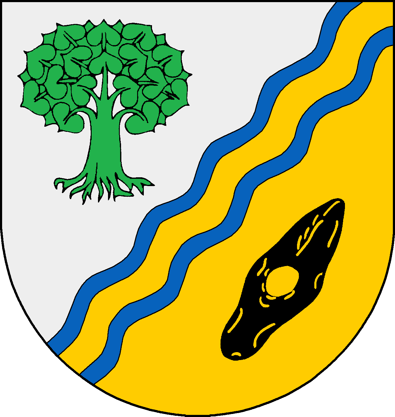 Coat of arms of the municipality Sollwitt in Schleswig-Holstein, Germany.